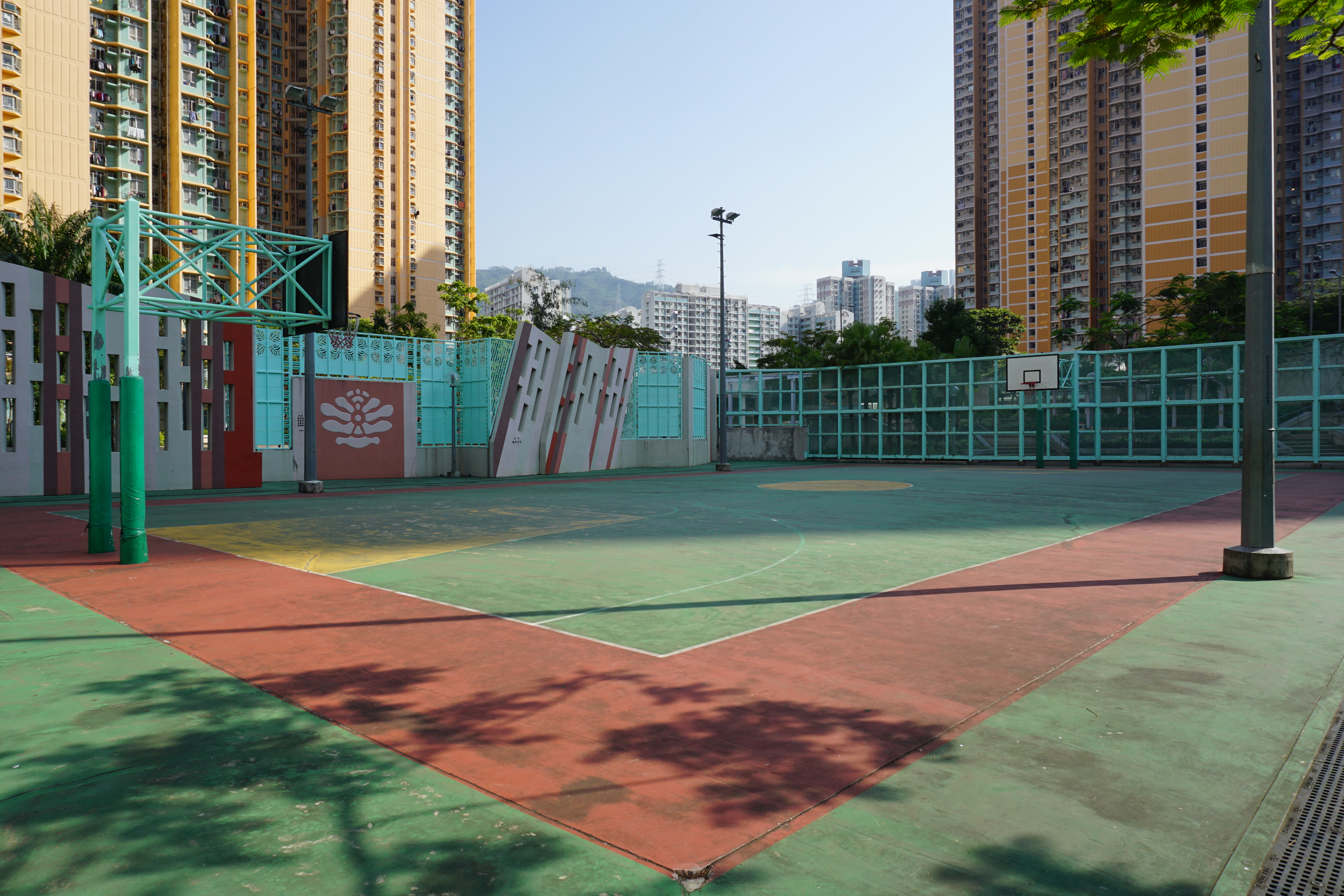 Kwai Chung Estate in Kwai Tsing District, Hong Kong.